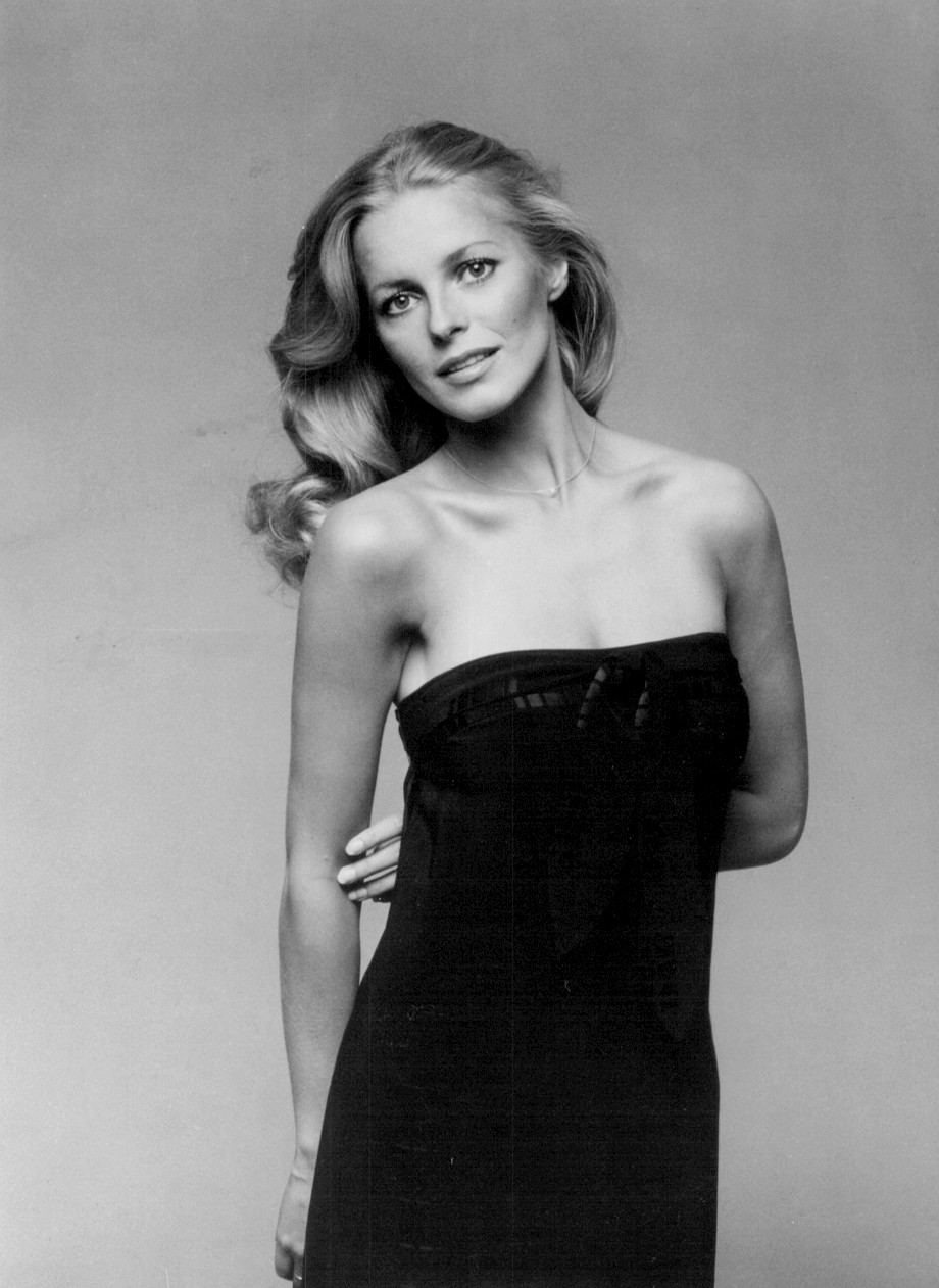 Photo of Cheryl Ladd from the television program Charlie's Angels.